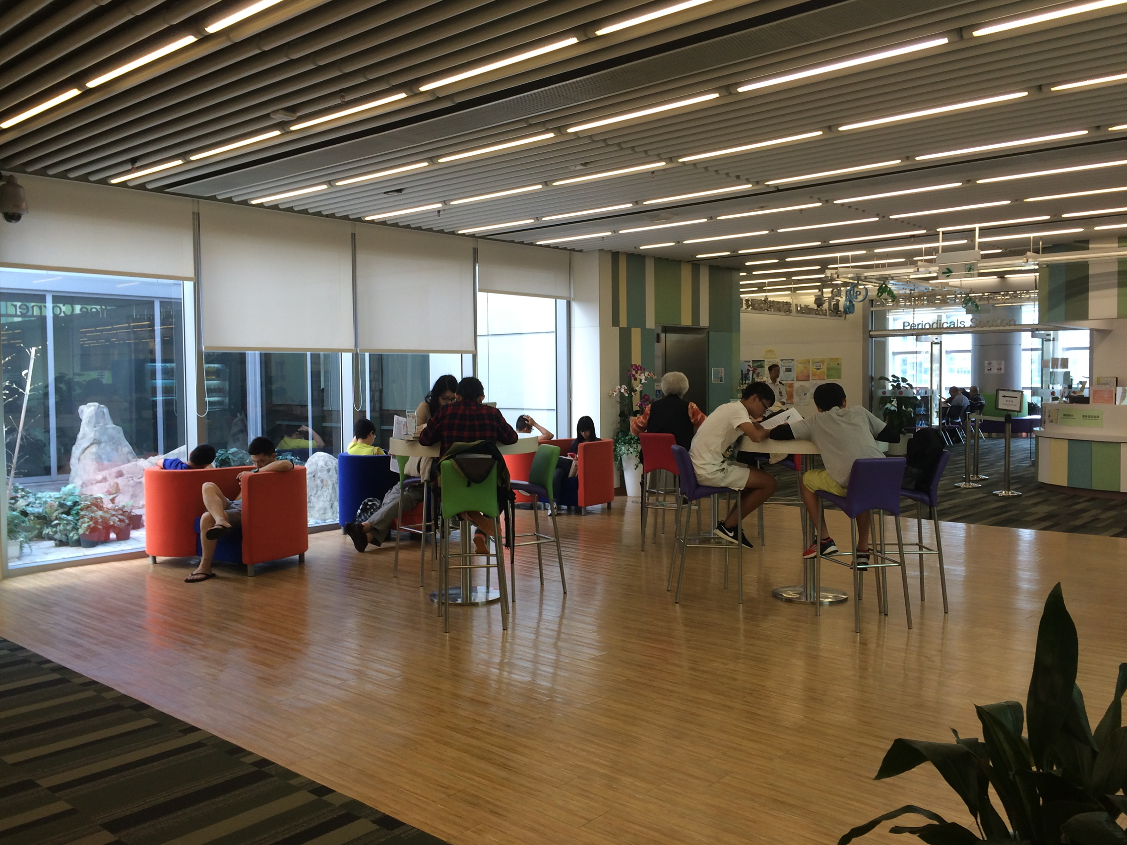 Lam Tin Public Library Rest area